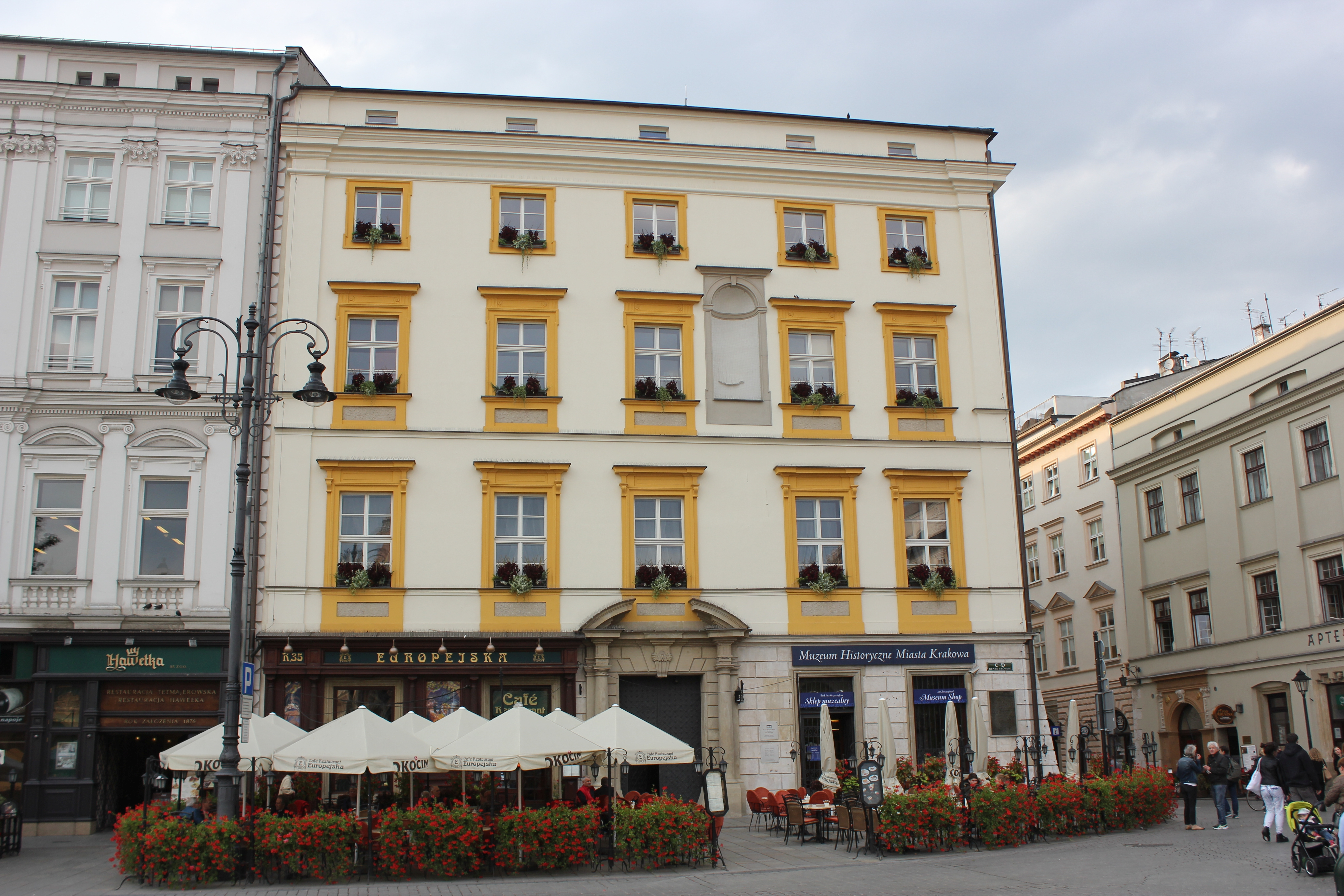 Kraków - Pod Krzysztofory Palace